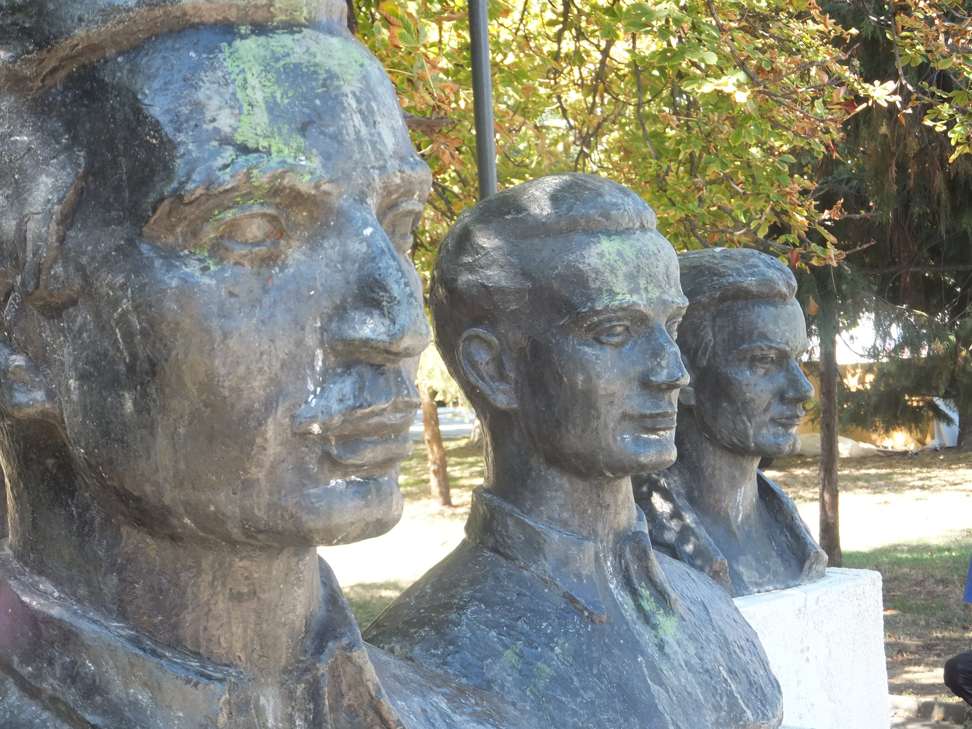 Smederevo, Memorial park of three heroes